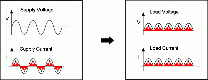 Diagram of current and voltage signals before and after rectification